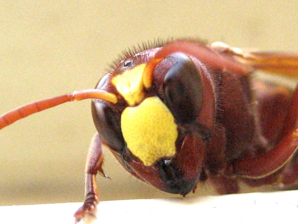 Face of an Oriental Wasp. צולם ע"י אבינועם (קוקו) מיכאלי בגן לאומי מצדה 16.09.06 Taken by Avinoam (koko) Michaely, MASADA - Nationat Park, Israel 16.09.06